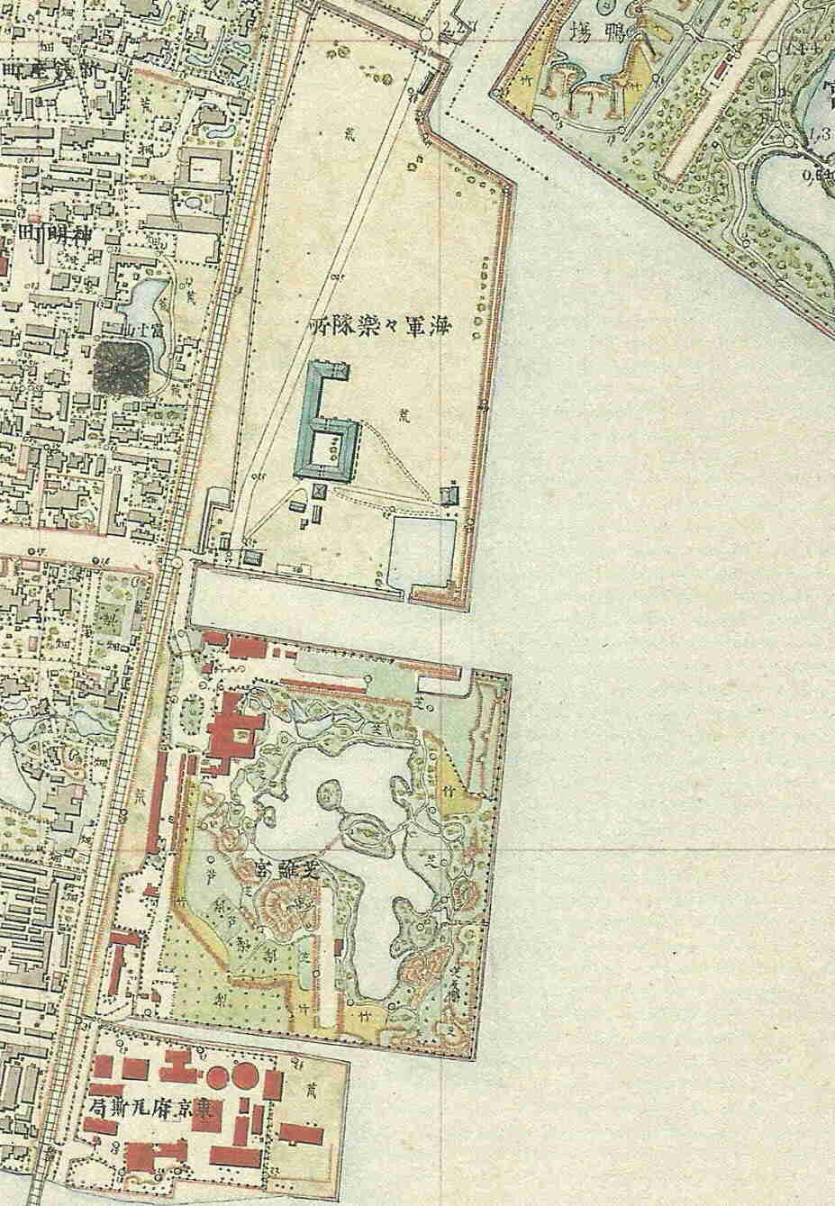 shiba rikyû